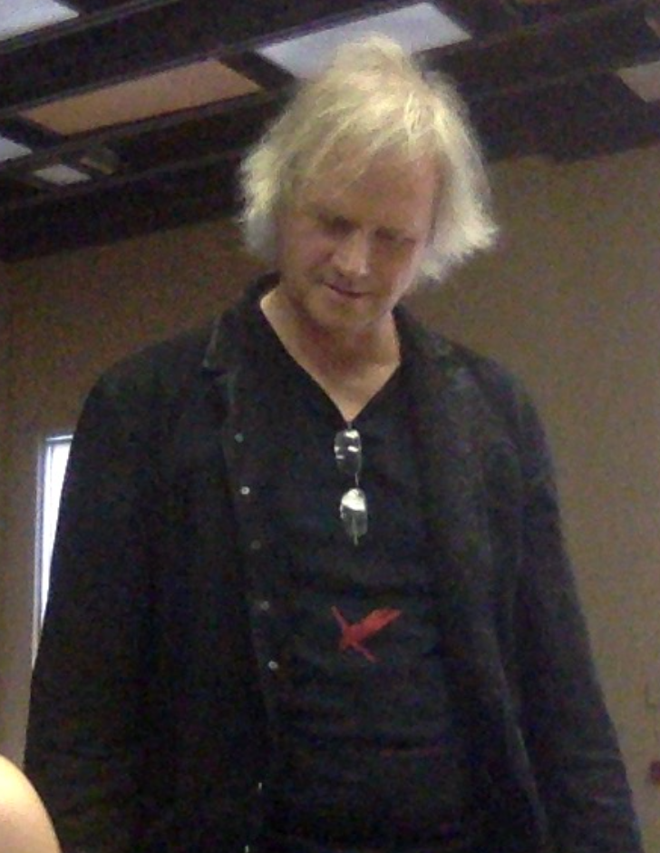 Trans-Siberian Orchestra founder Robert Kinkle at Villa Maria College in Buffalo, NY [CORRECTION: Cheektowaga, NY] on May 2, 2019